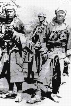 Chinese Hui troops of the Kansu braves of the Qing Imperial army, serving under General Dong Fuxiang during the Boxer rebellion.